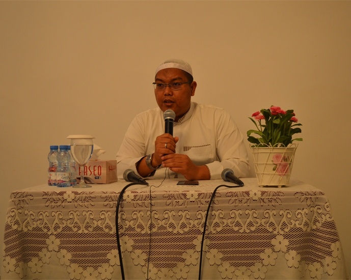 Ustaz Firanda Andirja during a Islamic lecture at the Indonesian Embassy in Muscat, Oman.